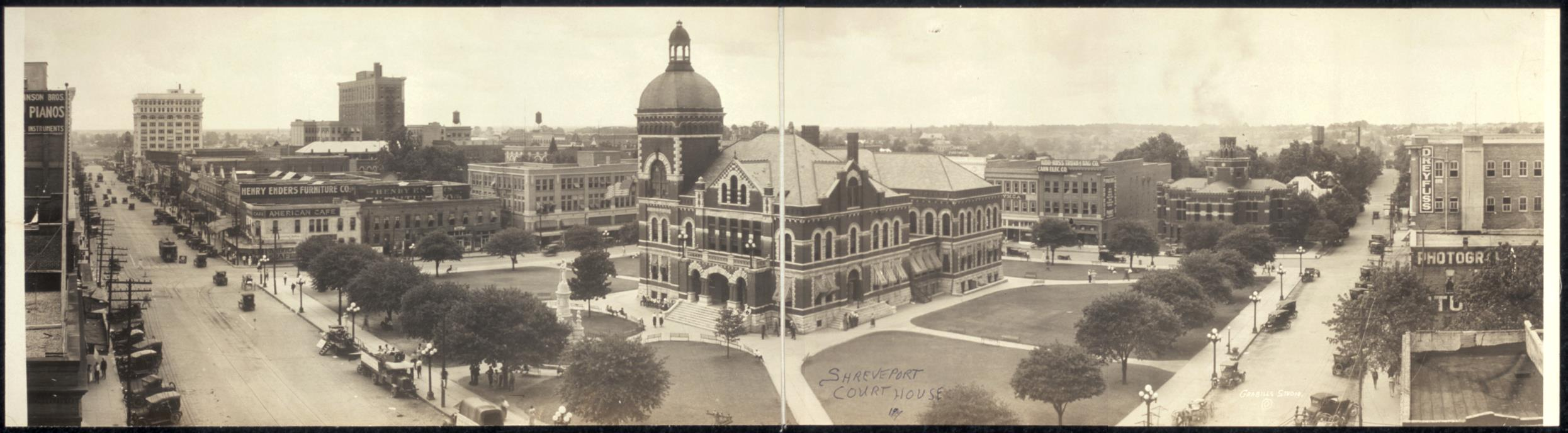 Courthouse and Downtown Shreveport, Louisiana, United States.